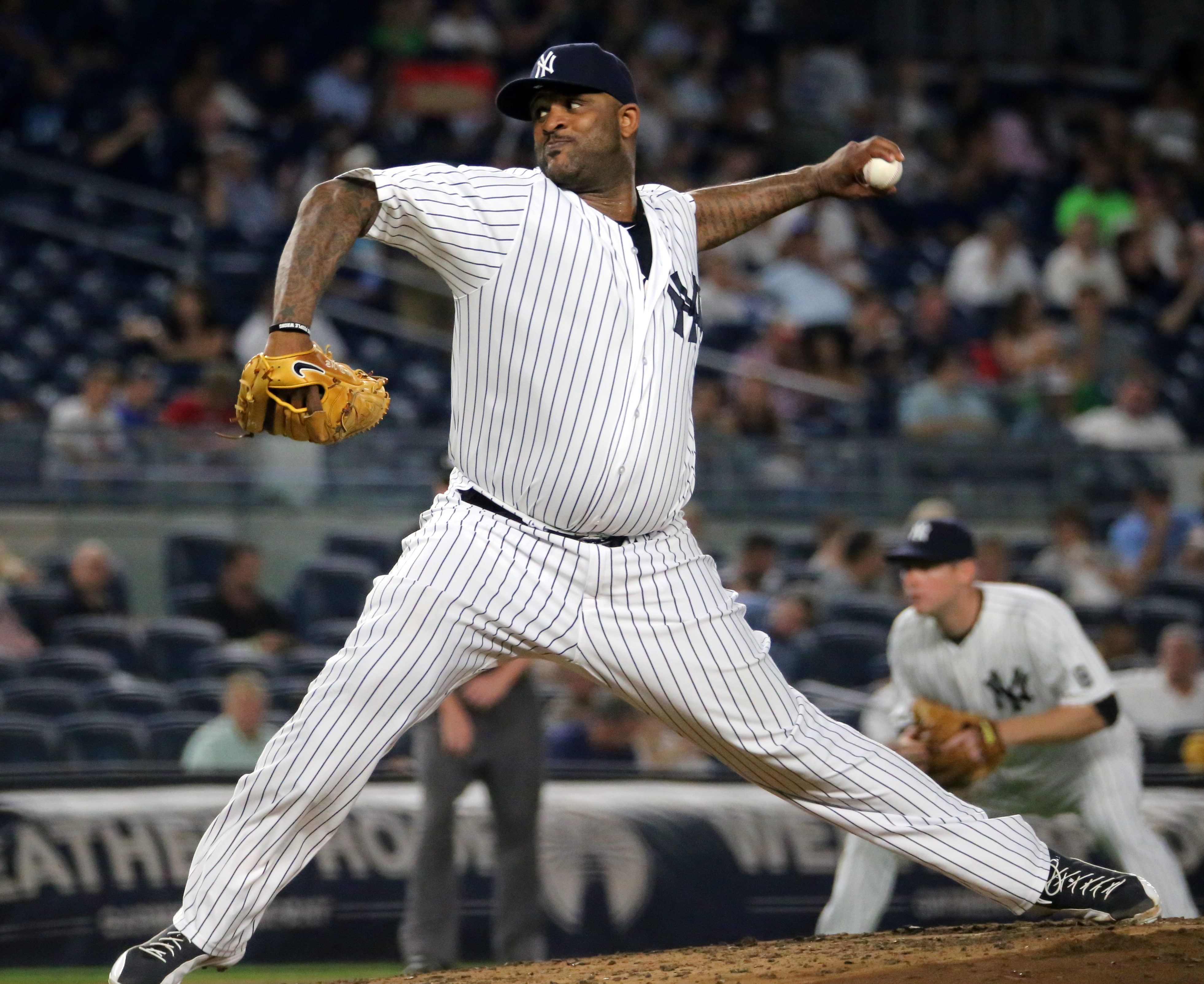 New York Yankees pitcher CC Sabathia during the third inning of a game against the Tampa Bay Rays at Yankee Stadium in the Bronx, New York, NY on September 8, 2016